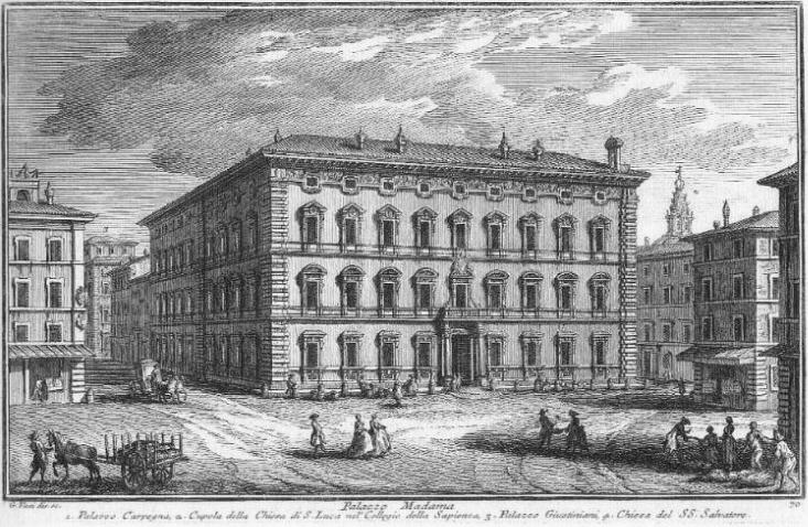 1) Palazzo Carpegna; 2) Spire of S. Luca (S. Ivo) alla Sapienza; 3) Palazzo Giustiniani; 4) Chiesa del SS. Salvatore.